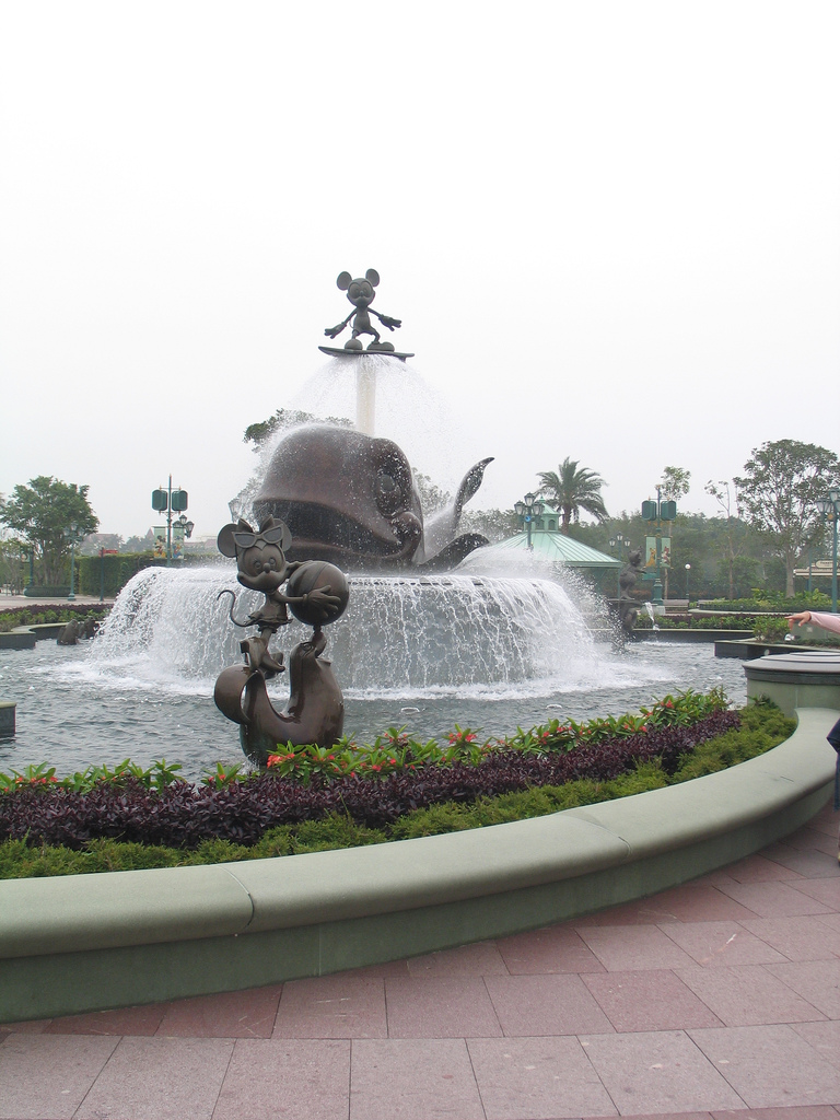 Hong Kong Disneyland fountain by Dave Q